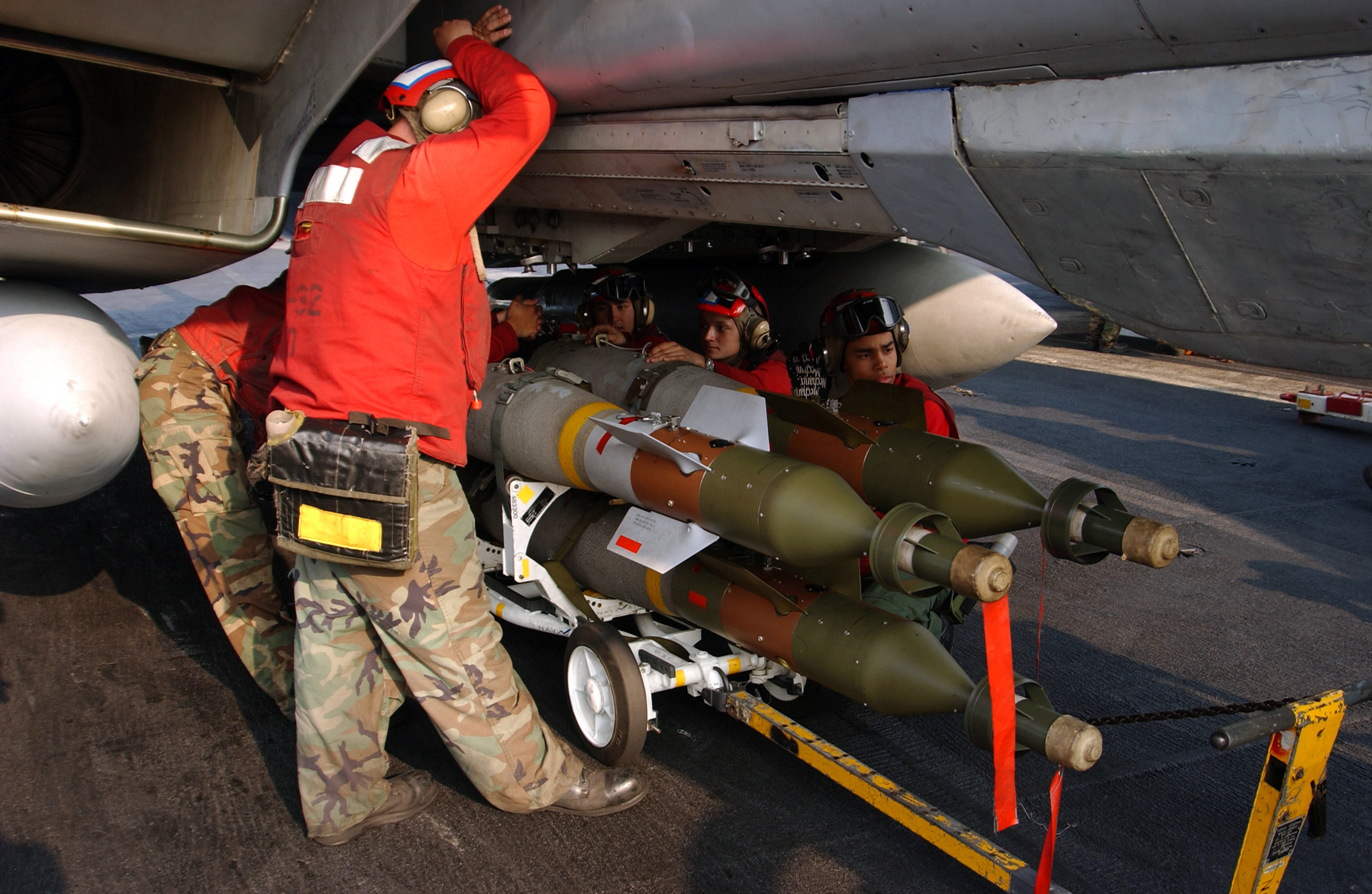 Persian Gulf (Dec. 11, 2004) - Aviation Ordnancemen assigned to the “Swordsmen” of Fighter Squadron Three Two (VF-32) prepare to load 500-pound laser guided bombs (GBU-12) to an F-14B Tomcat aboard the Nimitz-class aircraft carrier USS Harry S. Truman (CVN 75). Carrier Air Wing Three (CVW-3) embarked aboard Truman is providing close air support and conducting intelligence, surveillance and reconnaissance missions over Iraq. Truman’s Carrier Strike Group Ten (CSG-10) and CVW-3 are on a regularly scheduled deployment in support of the Global War on Terrorism.